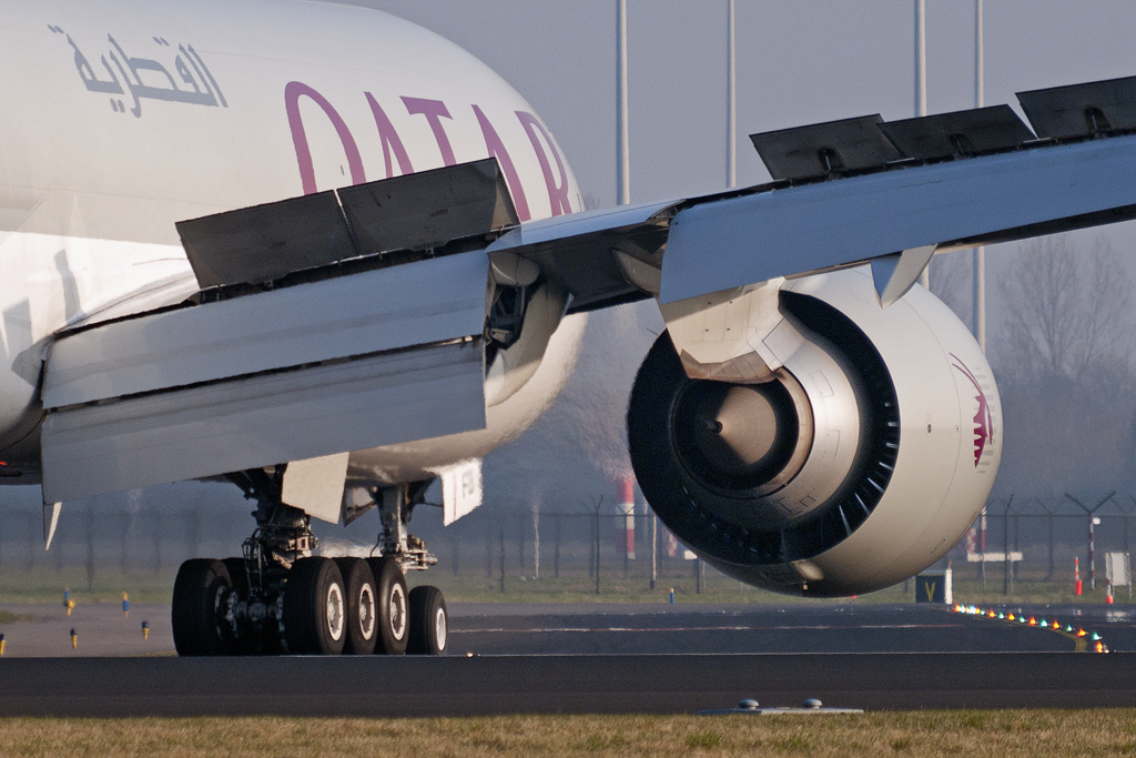 Making a left turn after landing for taxiing to the cargo terminal next to the kaagbaan. Boeing 777-FDZ Amsterdam schiphol [AMS / EHAM] 15-03-2012